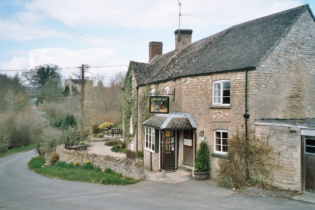 The Tite Inn, Chadlington, Oxfordshire. This 17th-century pub is on the edge of Chadlington in Oxfordshire, and won Camra's North Oxfordshire pub of the year in 2005. The road visible to the left leads to the A361 and then Churchill.